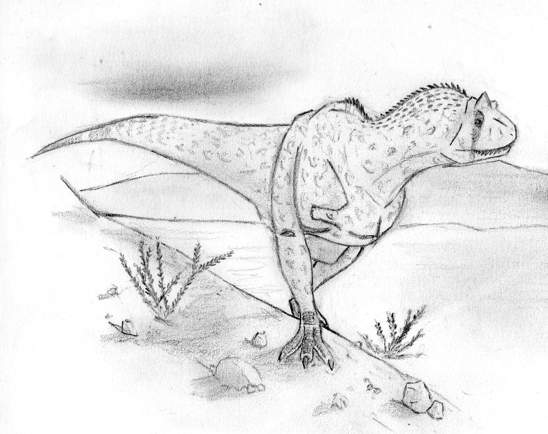 Carnotaurus sastrei